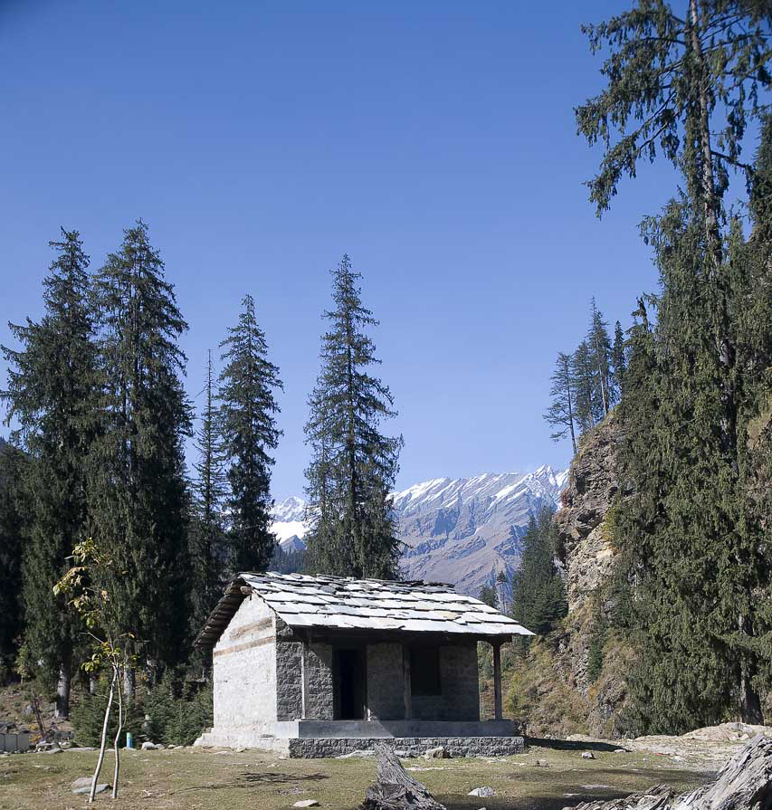 Picea smithiana trees and roadside shelter, near Solang, Manali, Himachal Pradesh, India.